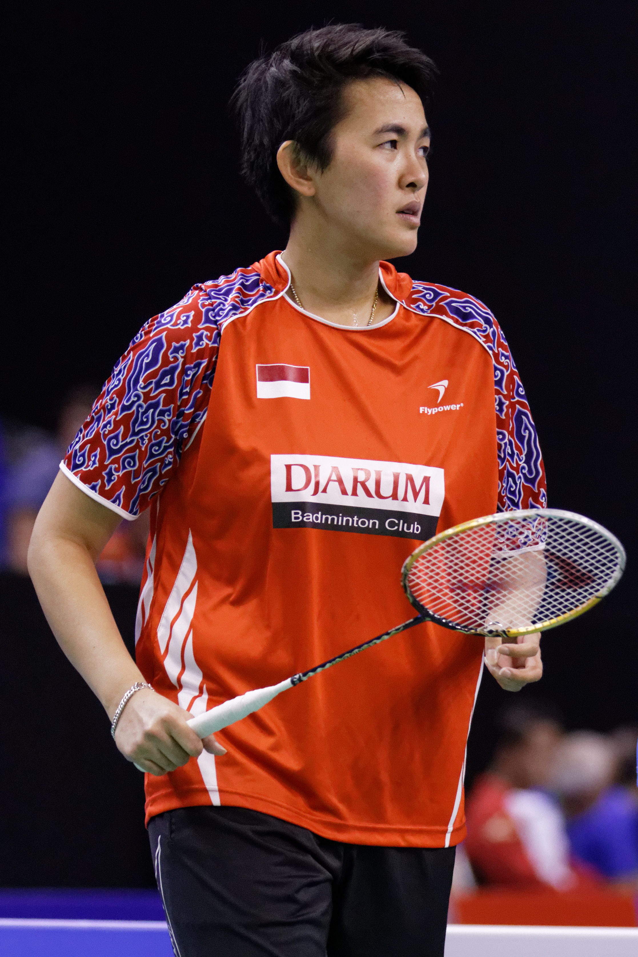 2013 French open. Mixed's doubles eightfinal. Kim Ki-jung and Kim So-young vs Praveen Jordan and Vita Marissa.